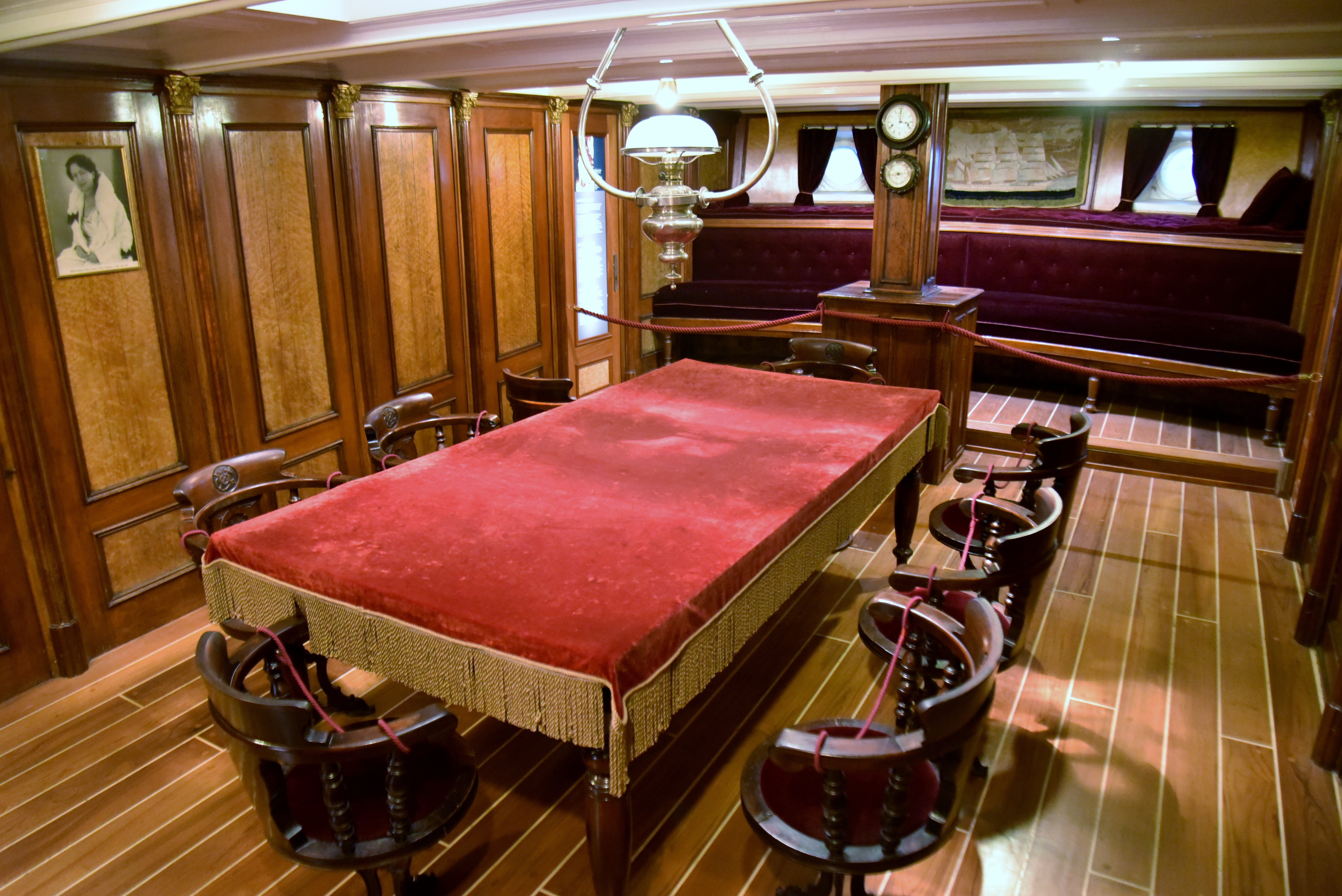 Interior view of the Åland Maritime Museum, depicting the preserved captain's saloon of the Herzogin Cecilie (which was wrecked in 1936)